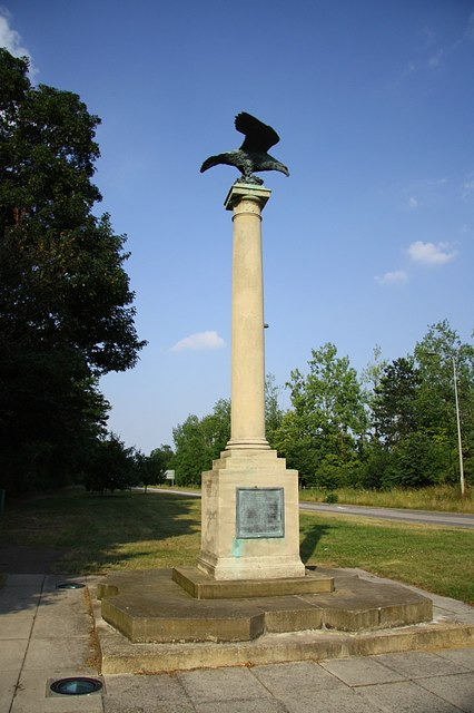 Norman Cross Napoleonic Monument A replacement Imperial Eagle crowns the monument toppled in 1990 and the eagle stolen when it stood by Norman Cross roundabout, a few metres to the west on the Great North Road. Between 1793 and 1814 more than 30,000 French prisoners of war were incarcerated in the camp that stood in the adjacent field. On 28th July 1914, exactly 100 years after the closure of the camp, the original monument was erected as a memorial to the 1,770 men who died there. The replacement bronze eagle by sculptor John Doubleday was placed atop the re-sited column and re-dedicated by the 8th Duke of Wellington on 2nd April 2005.